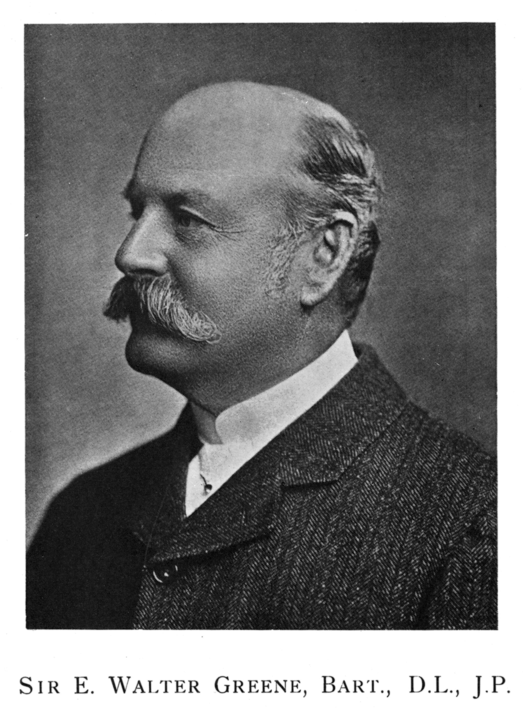 Photographic portrait of Sir Edward Walter GREENE (1842-1920) captioned SIR E. WALTER GREENE, D.L., J.P. [Deputy Lieutenant, Justice of the Peace] from the book entitled Suffolk Leaders: Social and Political, by Charles Albert Manning PRESS (1869-1943) published (for subscribers only) in May 1906 by the Hornsey & Tottenham Press Ltd.